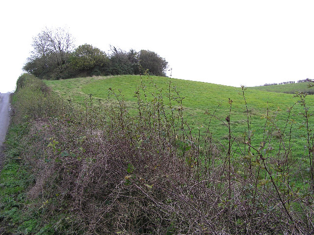 Rath at Camowen. This elevated area was in a very large field. Raths or similar areas are very common in the Ulster countryside.